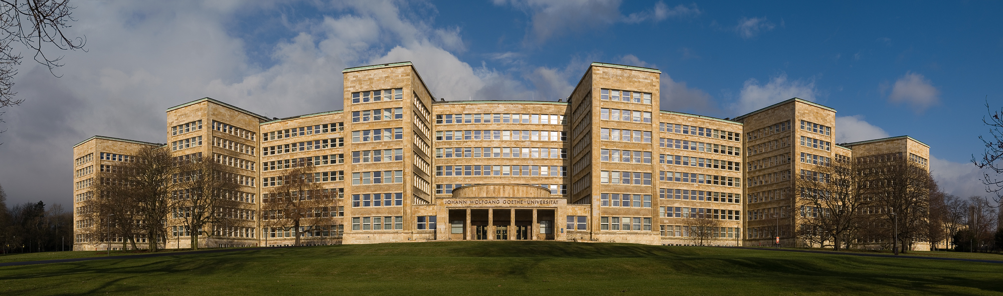 Panorama of Poelzig building (IG-Farben building) of Frankfurt University